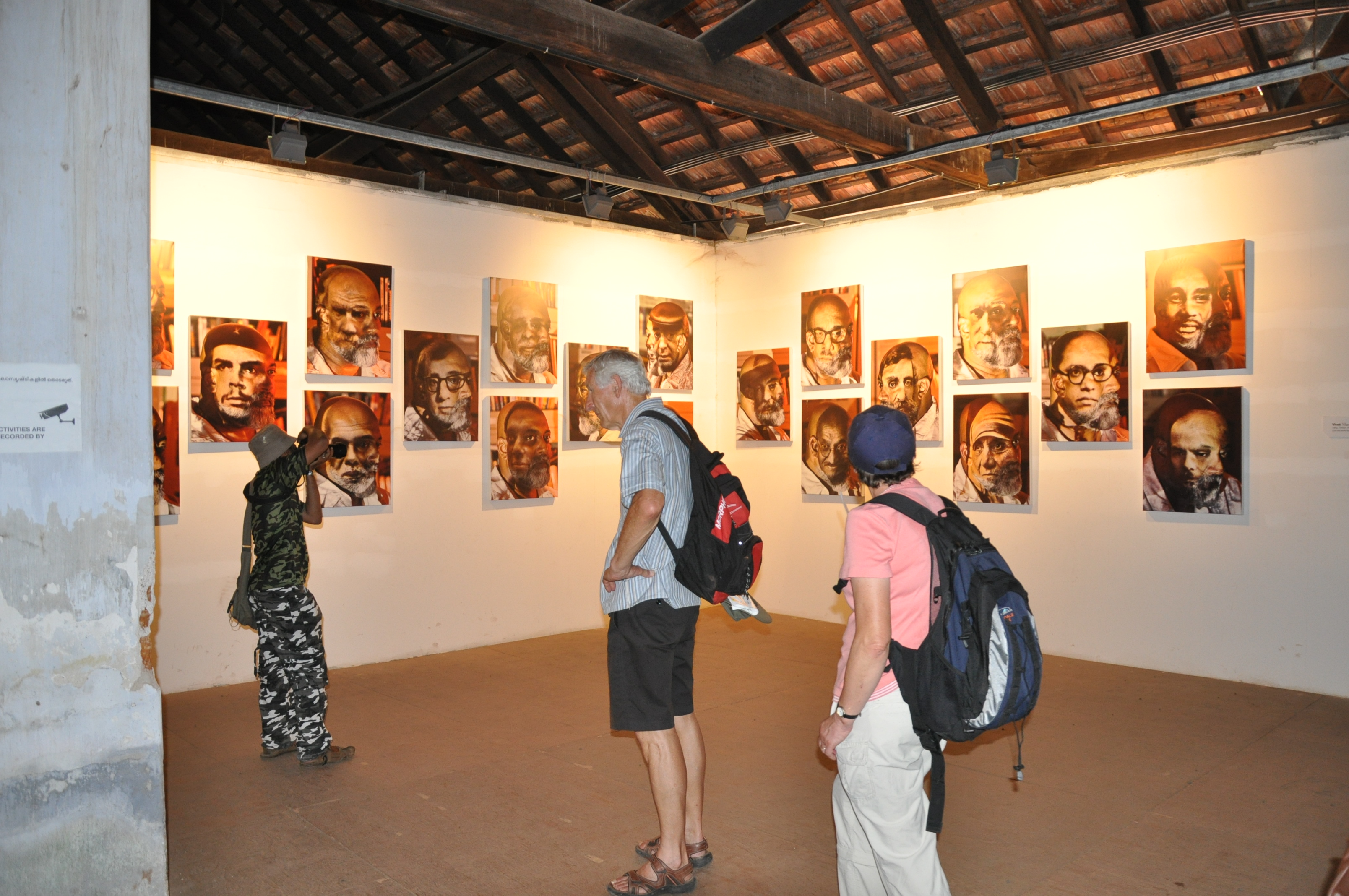 Seeing vivek vilasinis between one shore and sevaral others at Kochi muziris binalle 2012